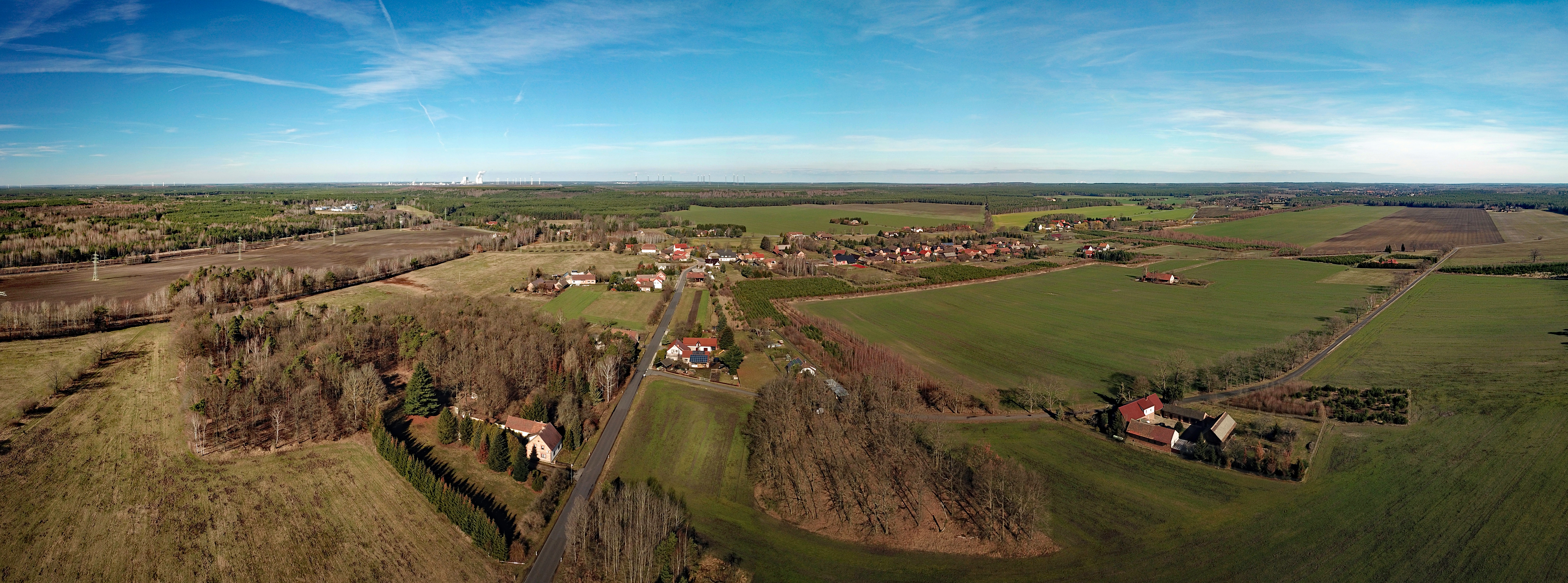 Mulkwitz (Schleife, Saxony, Germany) Hornjoserbsce: Powětrowy wobraz Mułkec